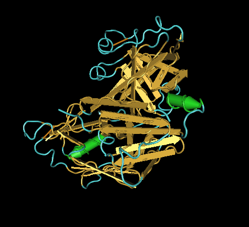 X-ray analyses of peptide-inhibitor complexes define the structural basis of specificity for human and mouse renins